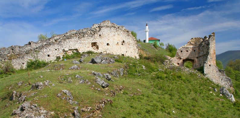 STARI GRAD ORAŠAC